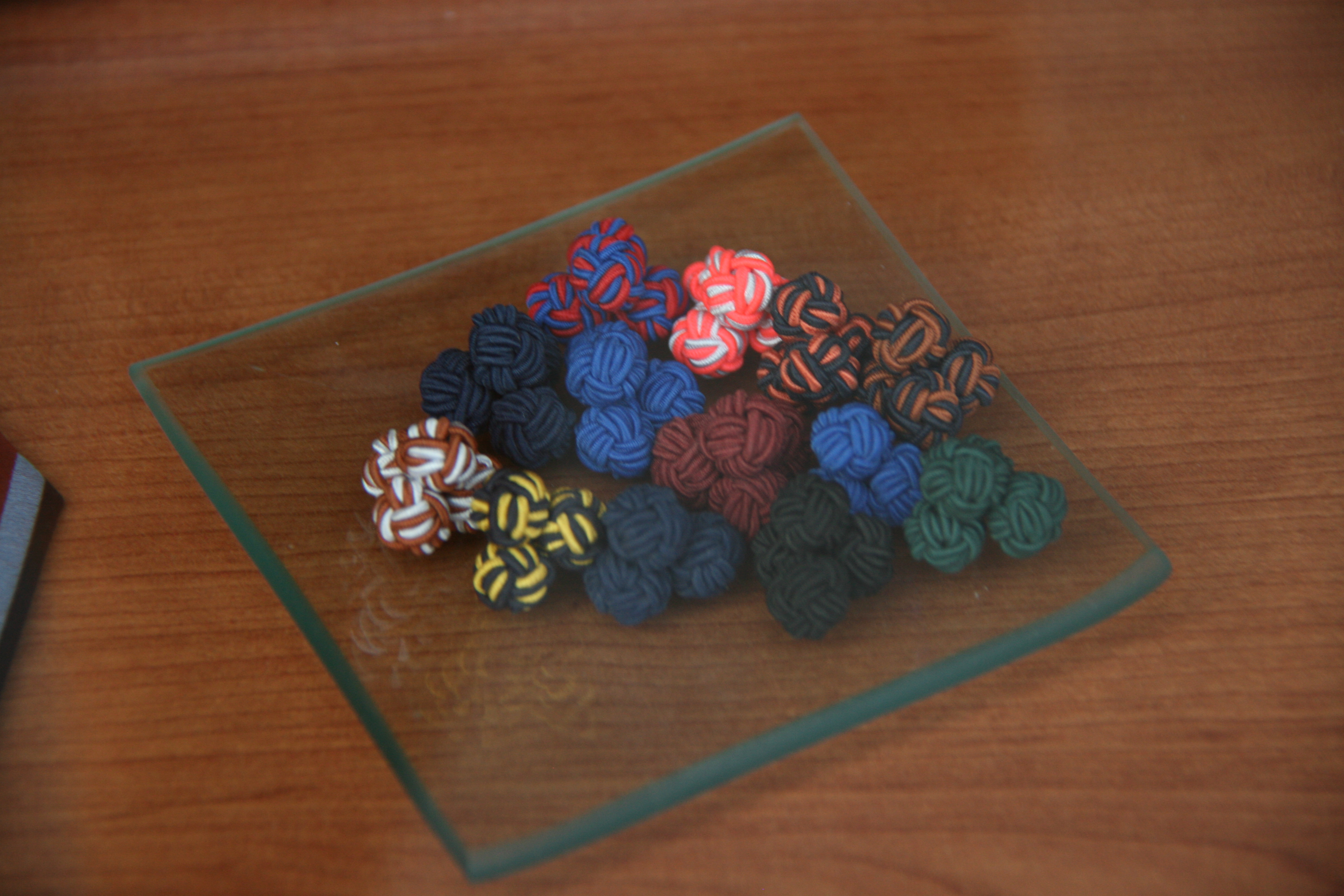 Cufflinks